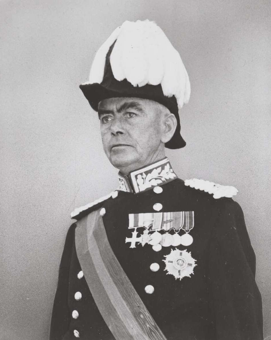 William Morrison, Viscount Dunrossil, Governor-General of Australia 1960-1961